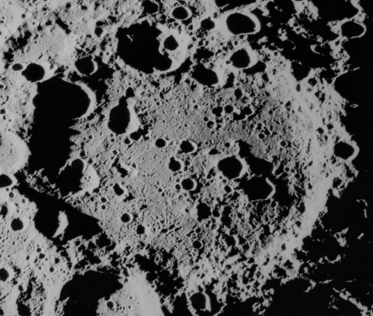 Pasteur on far side of the moon, while at the lunar terminator (low sun angle). From Apollo 15 mapping camera, after trans-Earth injection.